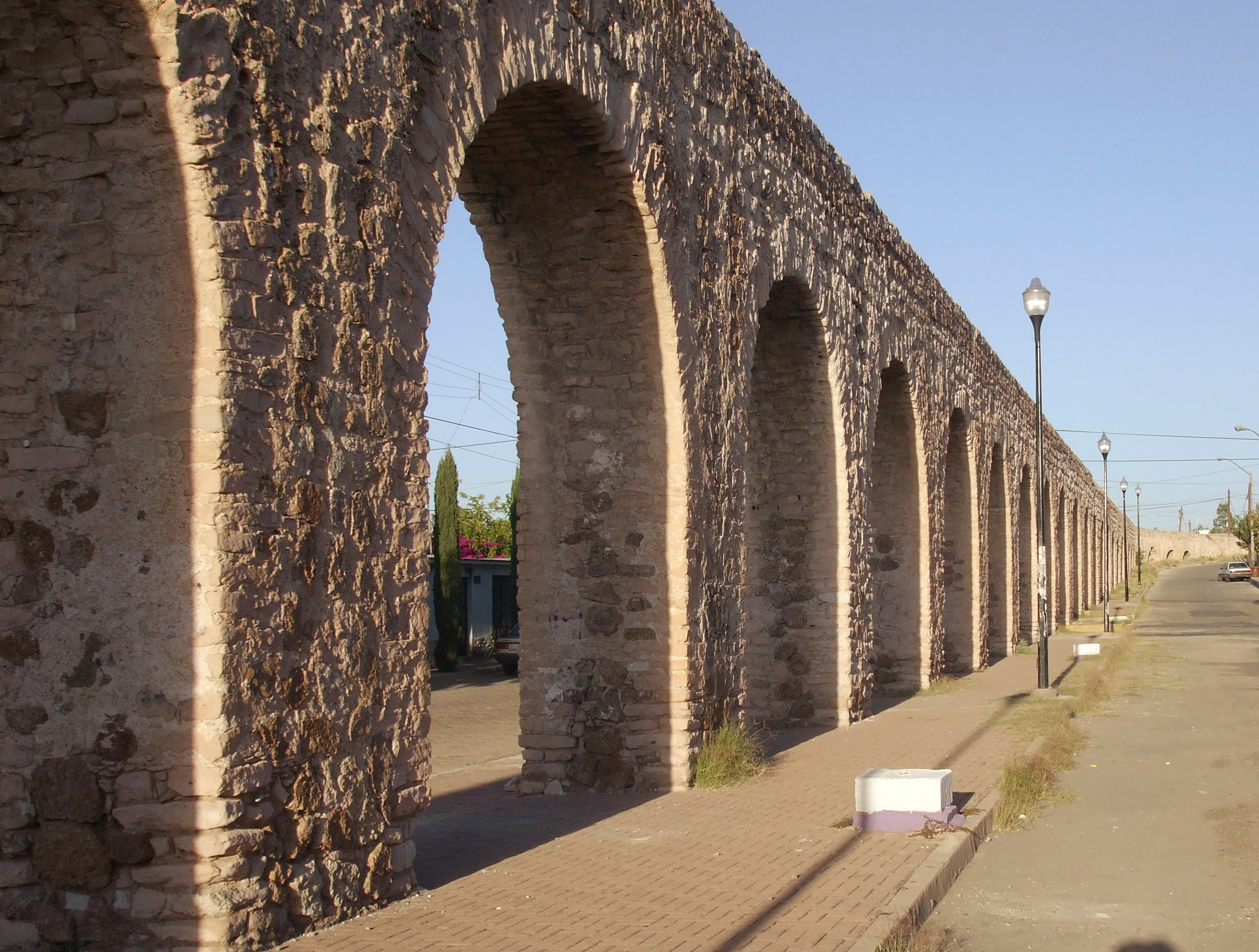 Length of colonial aqueduct in Chihuahua, Mexico, 18th Century